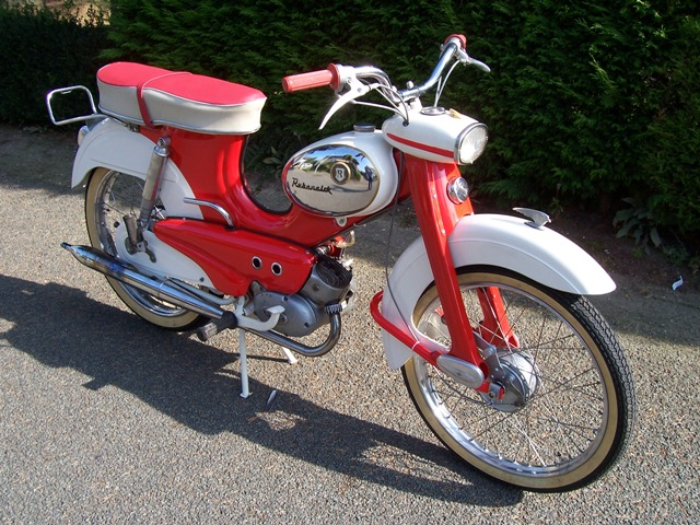 Picture of a Rabeneick Binetta Star 50cc motorcycle, year of construction: 1959, 3 (manual) gears 3,2 horsepower Sachs engine. Right side (there is also a picture from the left side)